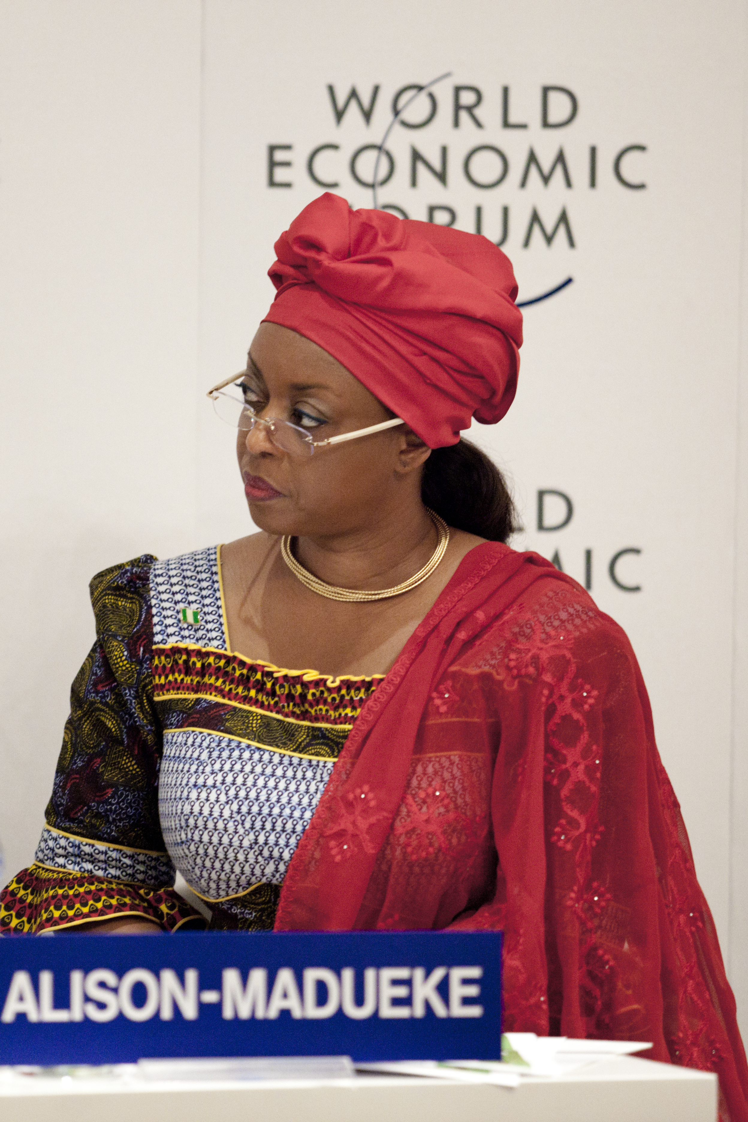 ADDIS ABABA/ETHIOPIA, 09-11 MAY 2012 - Diezani K. Alison-Madueke, Minister of Petroleum Resources of Nigeria, captured during the Ending Energy Poverty Session at the World Economic Forum on Africa held in Addis Ababa, Ethiopia, 9-11 May, 2012.